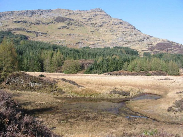 Llyn y Garnedd-uchaf The dam walls are breached and this is all that remains of Llyn y Garnedd-uchaf.